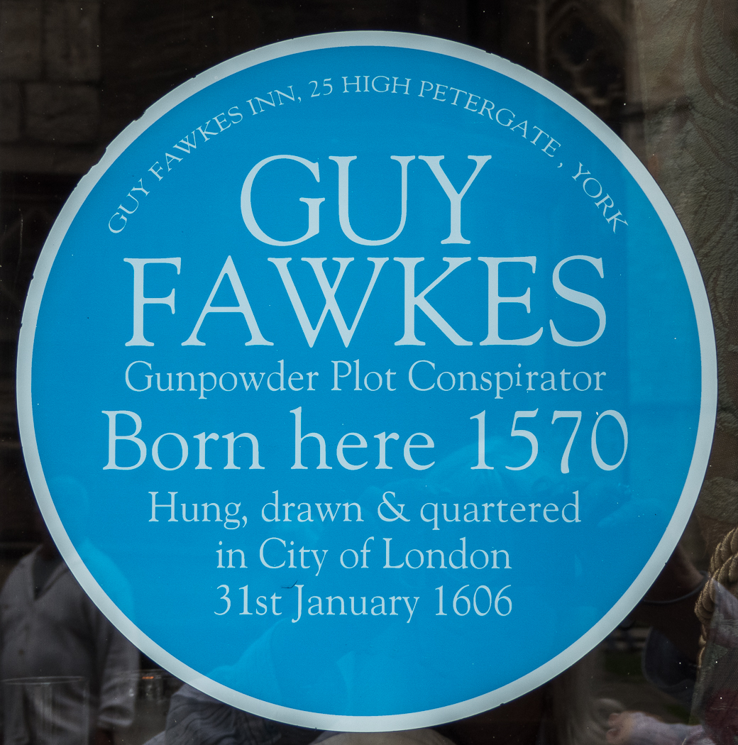 Blue Plaque, Guy Fawkes Inn, 25 High Petergate York, Yorkshire